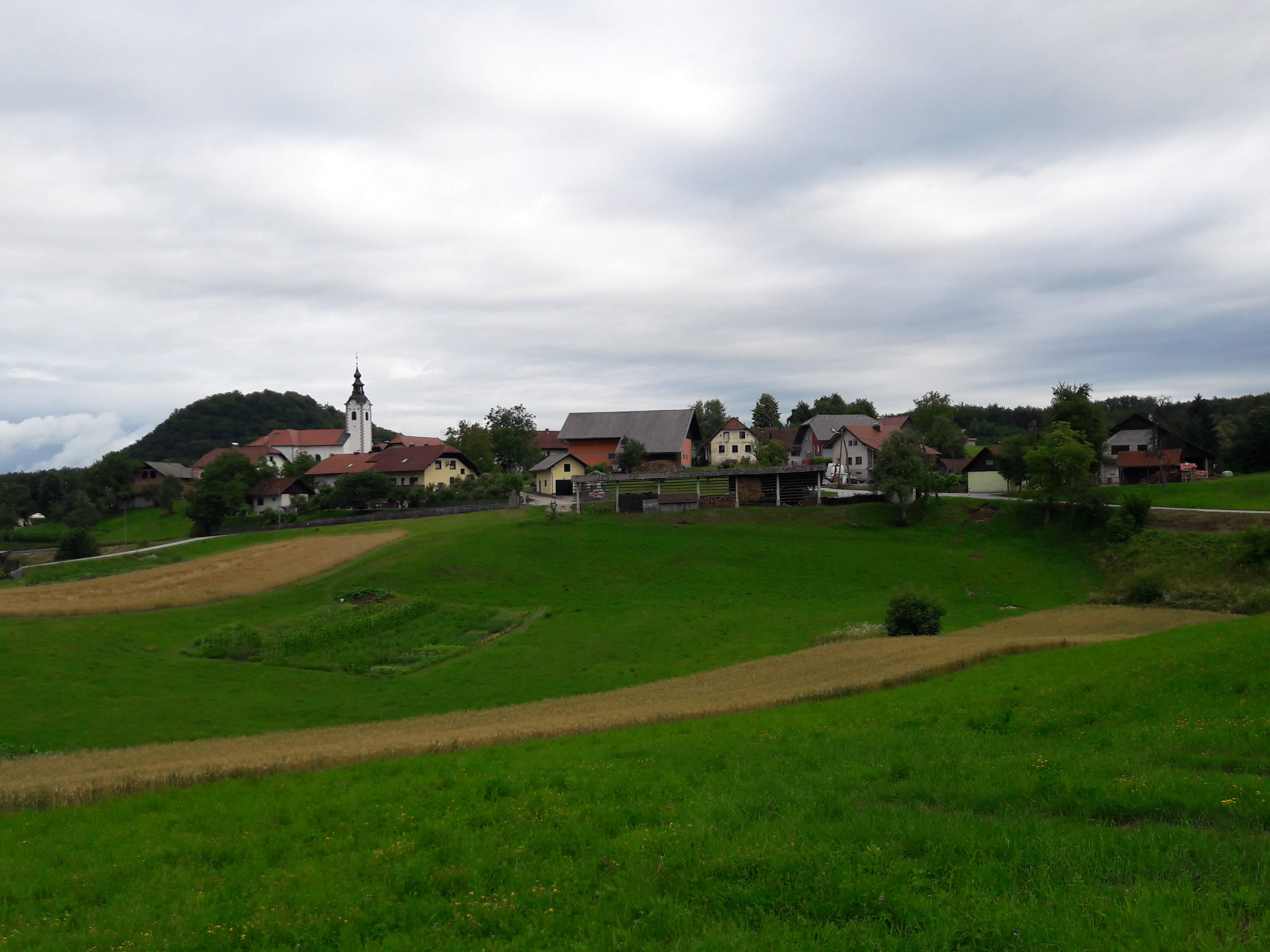 Sela pri Šumberku, settlement in Slovenia